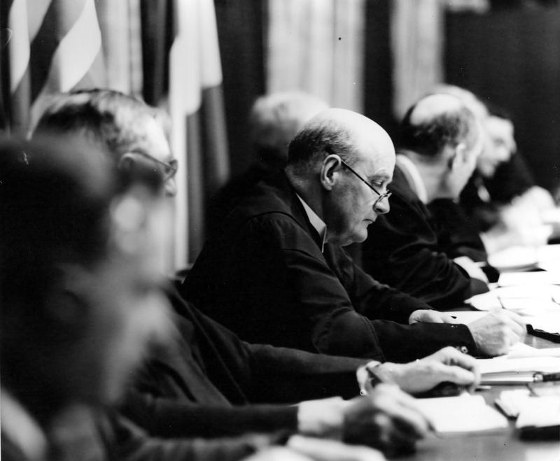 Lord Justice Geoffrey Lawrence at the Nuremberg War Crimes Trials. Subjects (ARC): Nuremberg Trial of Major German War Criminals, Nuremberg, Germany, 1945-1946 Subjects (HST): Nurnberg Trials; Germany - Nurnberg People: Lawrence, Geoffrey Accession number: 72-867 Physical Size: 7.25x9 inches Color: Black & White Cropped: no